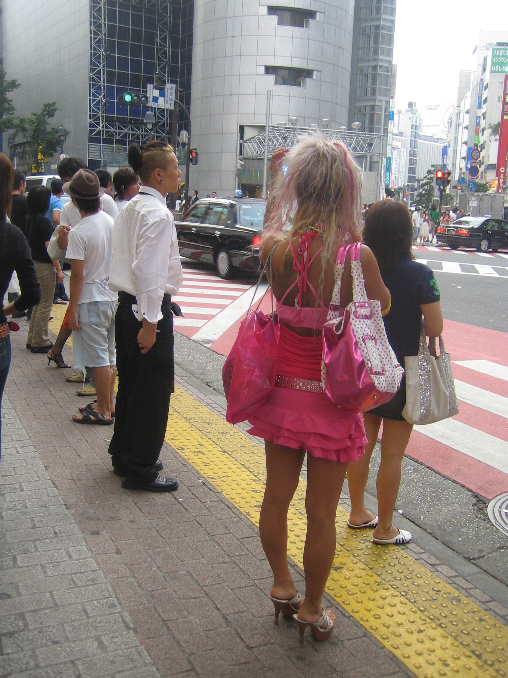 From Wikipedia: "Yamanba (ヤマンバ, Yamanba?) sometimes written as "yamamba", is a fashion trend among young Japanese women. Starting with the bleached white hair and heavy tan of the ganguro girl, the yamanba adds white lipstick, white eye makeup, and sometimes brightly colored contacts, plastic clothing, and inappropriate accessories. Some yamanba wear stuffed animals as decorations, talk with a slurred speech, and enjoy shiny neon or dayglo colors."Rebel without a cause